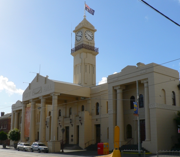 Richmond Town Hall. Richmond, Victoria, Australia.